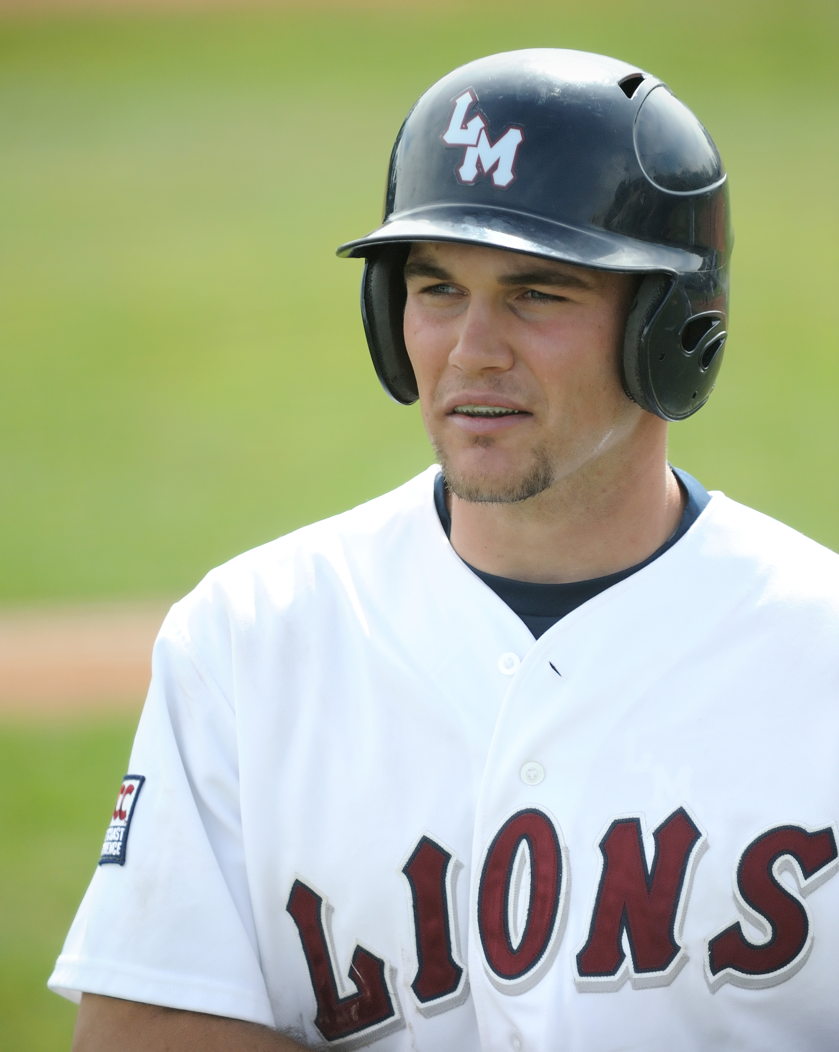 Ryan Wheeler with the Loyola Marymount Lions baseball team in 2009